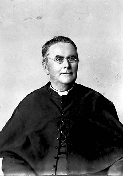 Portrait of Camille Lefebvre (1831-1895).